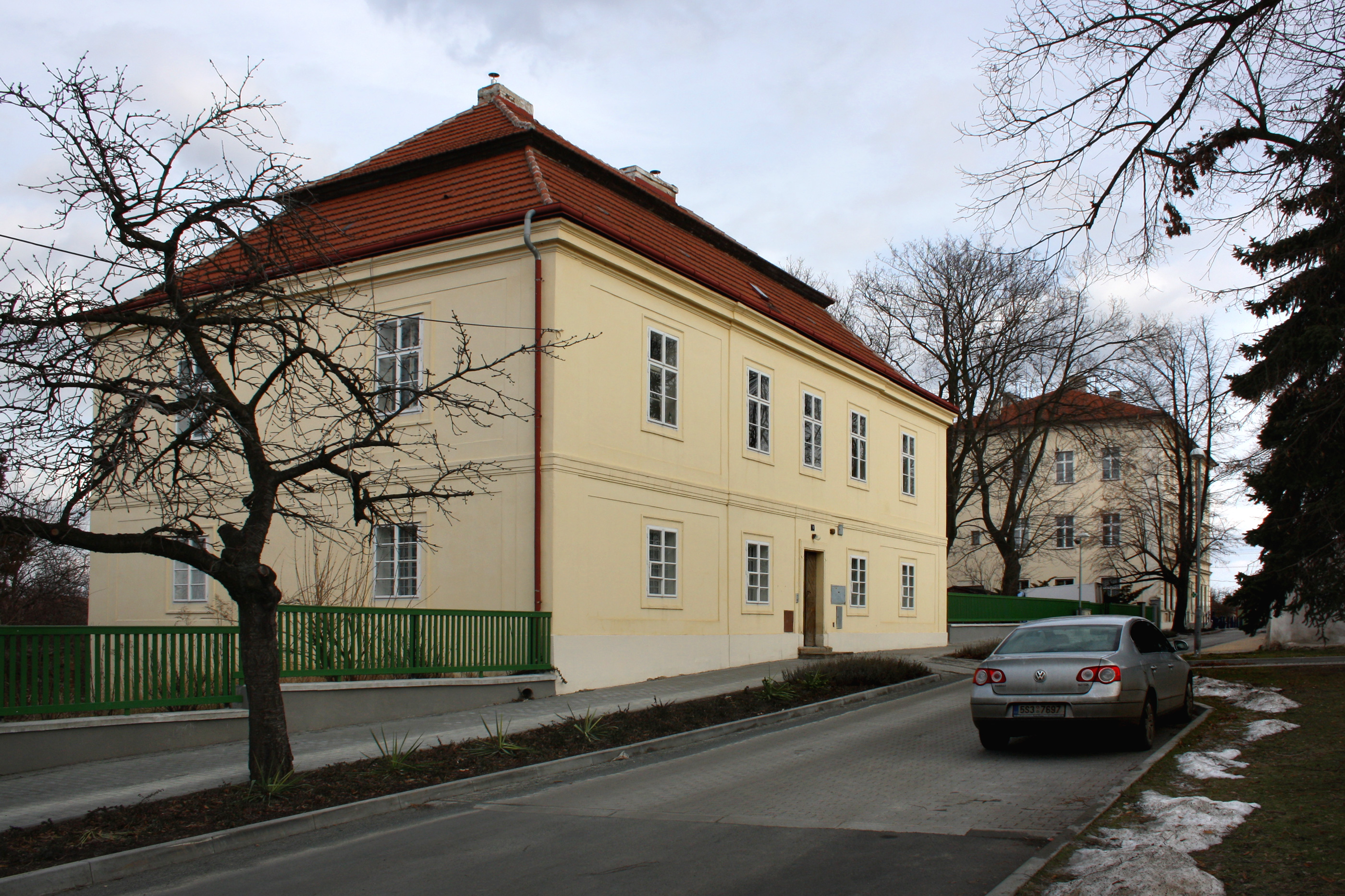 Presbytery in Líbeznice, Czech Republic.